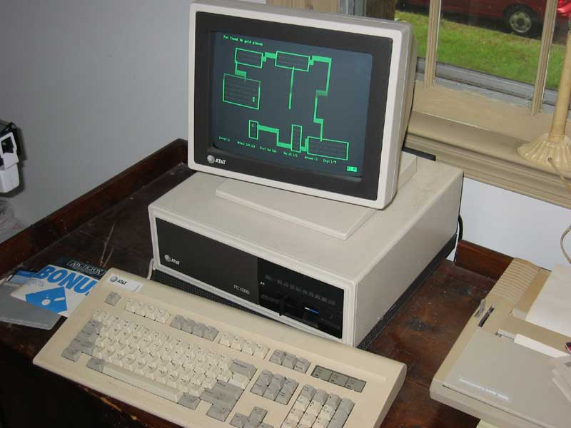 This computer was my old girlfriend's family computer when she was but a wee thing. Still has her book reports on the internal HD.